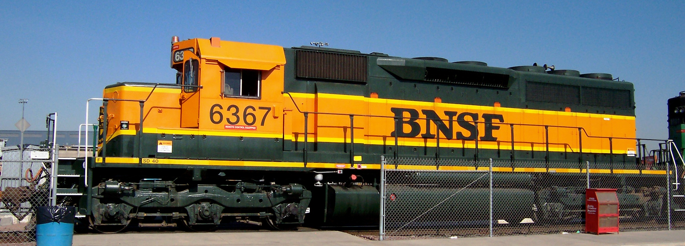 BNSF 6367, an EMD SD40, at Commerce, CA 11/10/2006